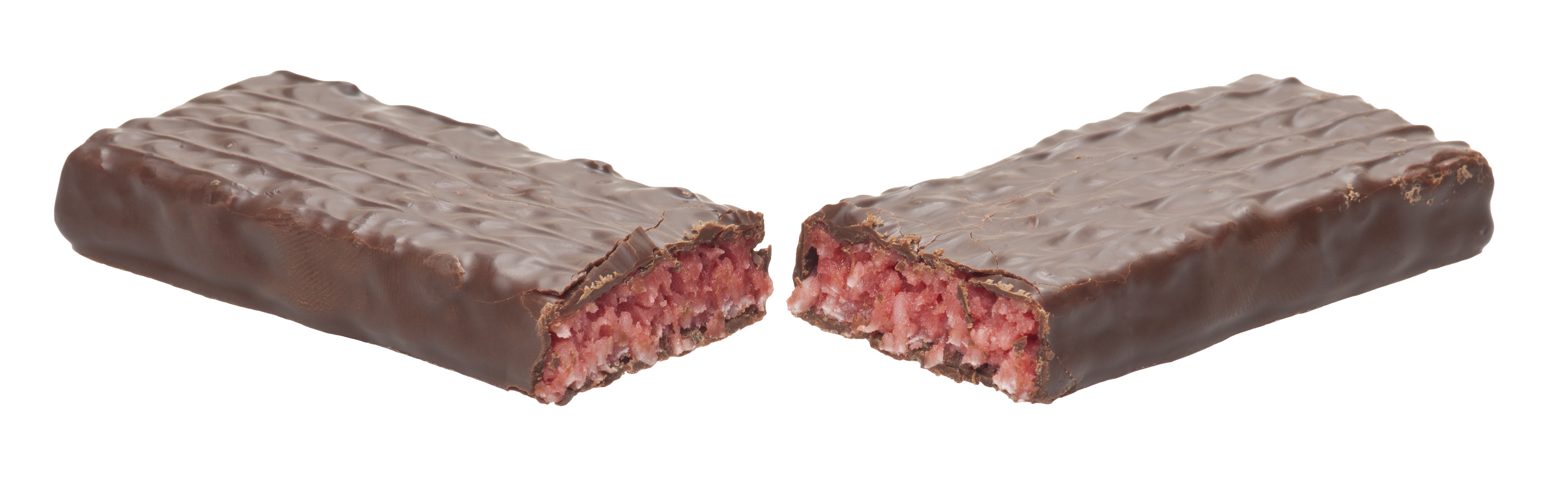 An Australian Cherry Ripe candy bar that has been split in half.